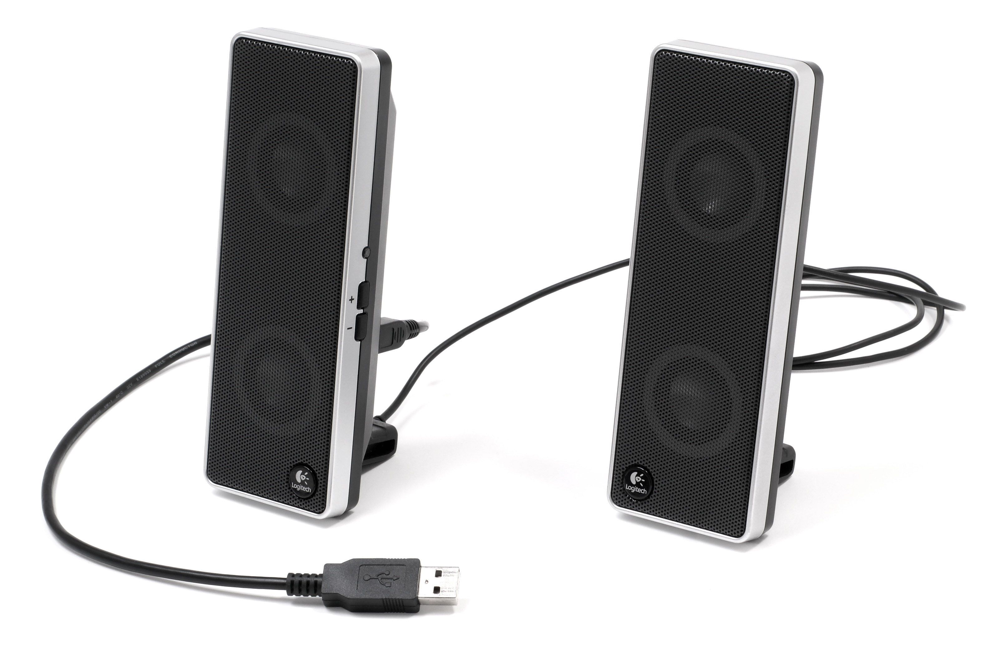 A pair of speakers for notebook computers made by Logitech. They both are powered and audio-connected to the computer via USB.